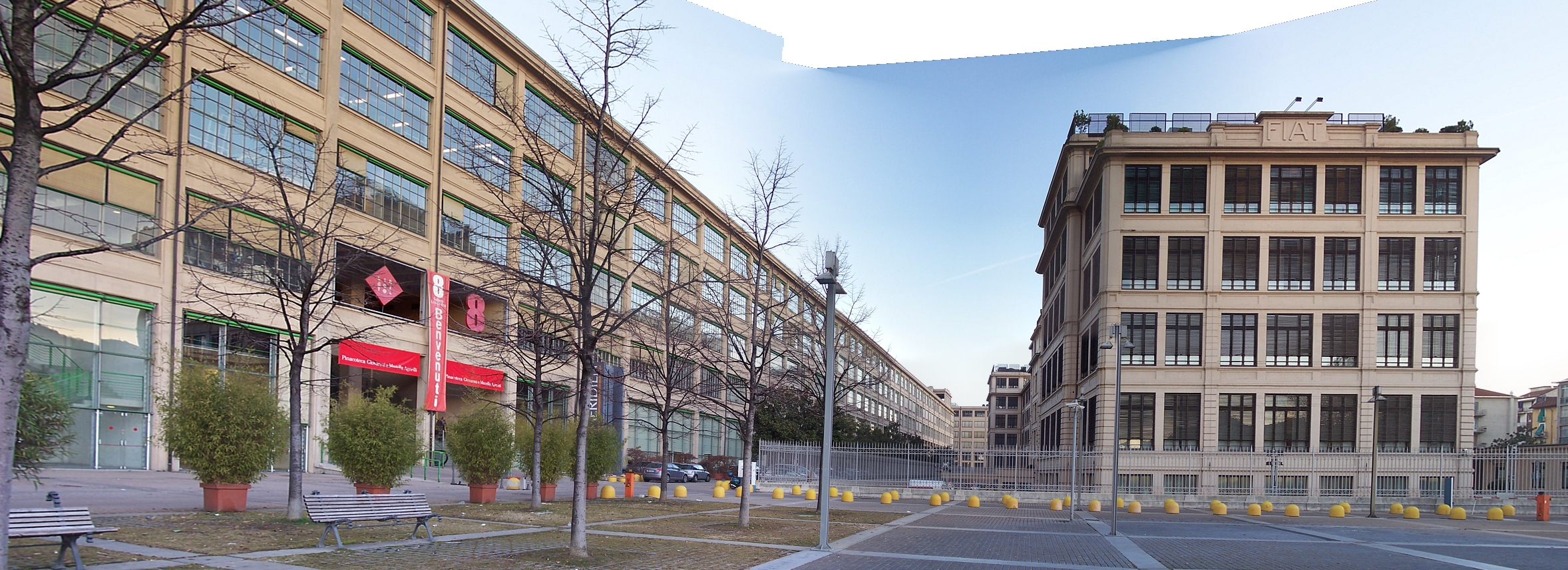 Lingotto factory in Turin.